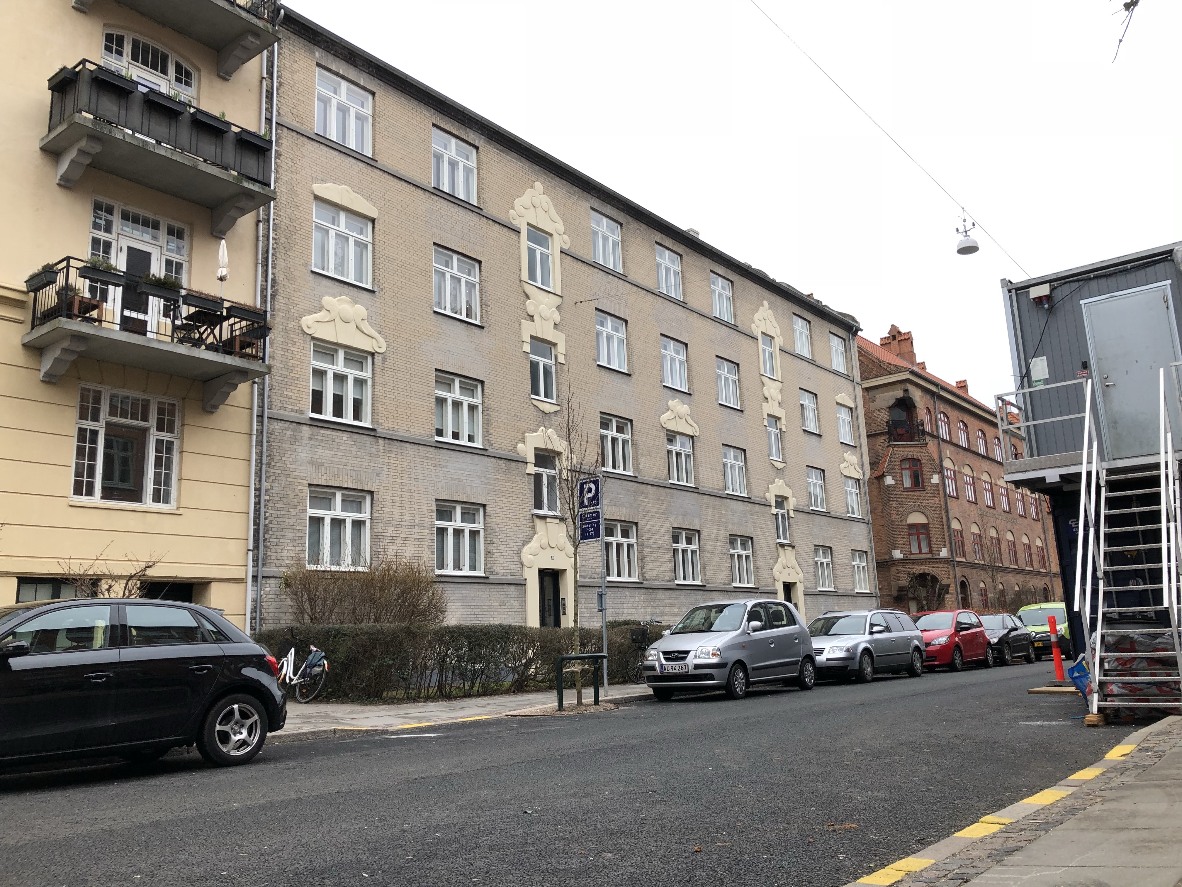 The Post and Telegraph Men’s Foundation, 1902, Mariendalsvej 38B-40, Frederiksberg, Denmark, architect Thorvald Bindesbøll 1846-1908